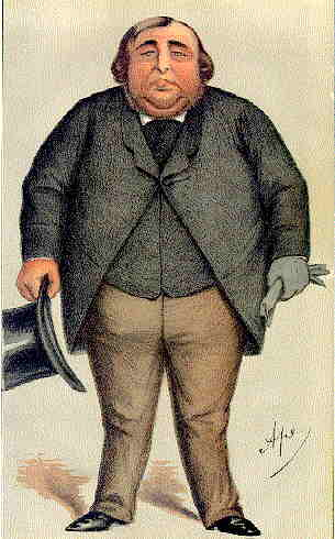 Caricature of 'The Tichborne Claimant' (Arthur Orton). Caption read "Baronet or butcher".